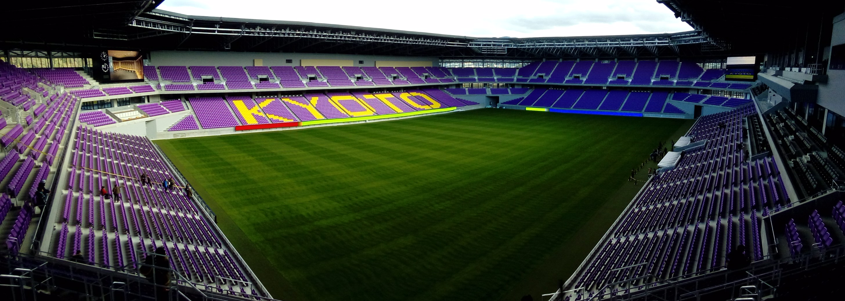 Kyoto Stadium (Sanga stadium by kyocera) in Kameoka, Kyoto, Japan.